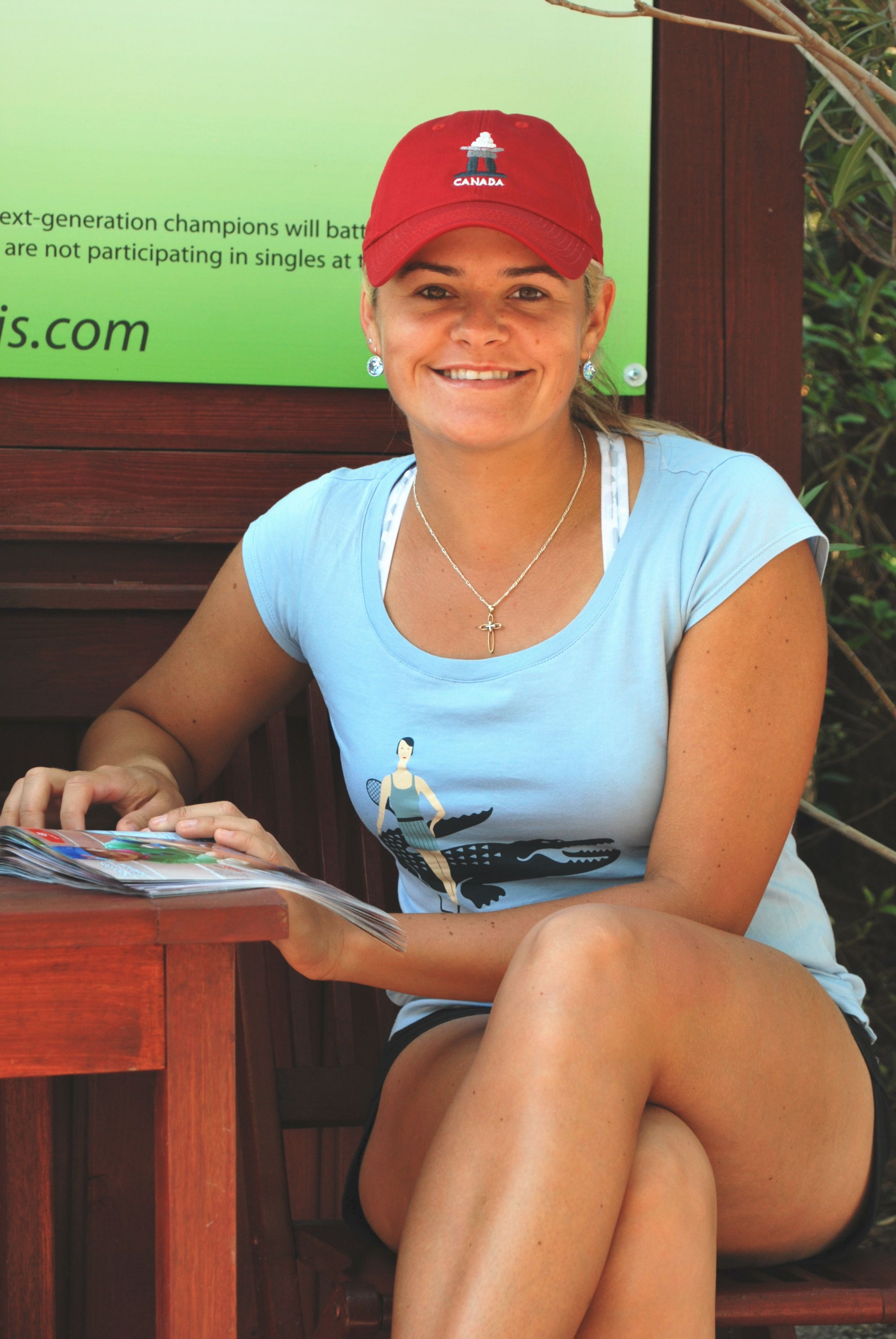 Aleksandra Wozniak at Budapest Grand Prix, 2012